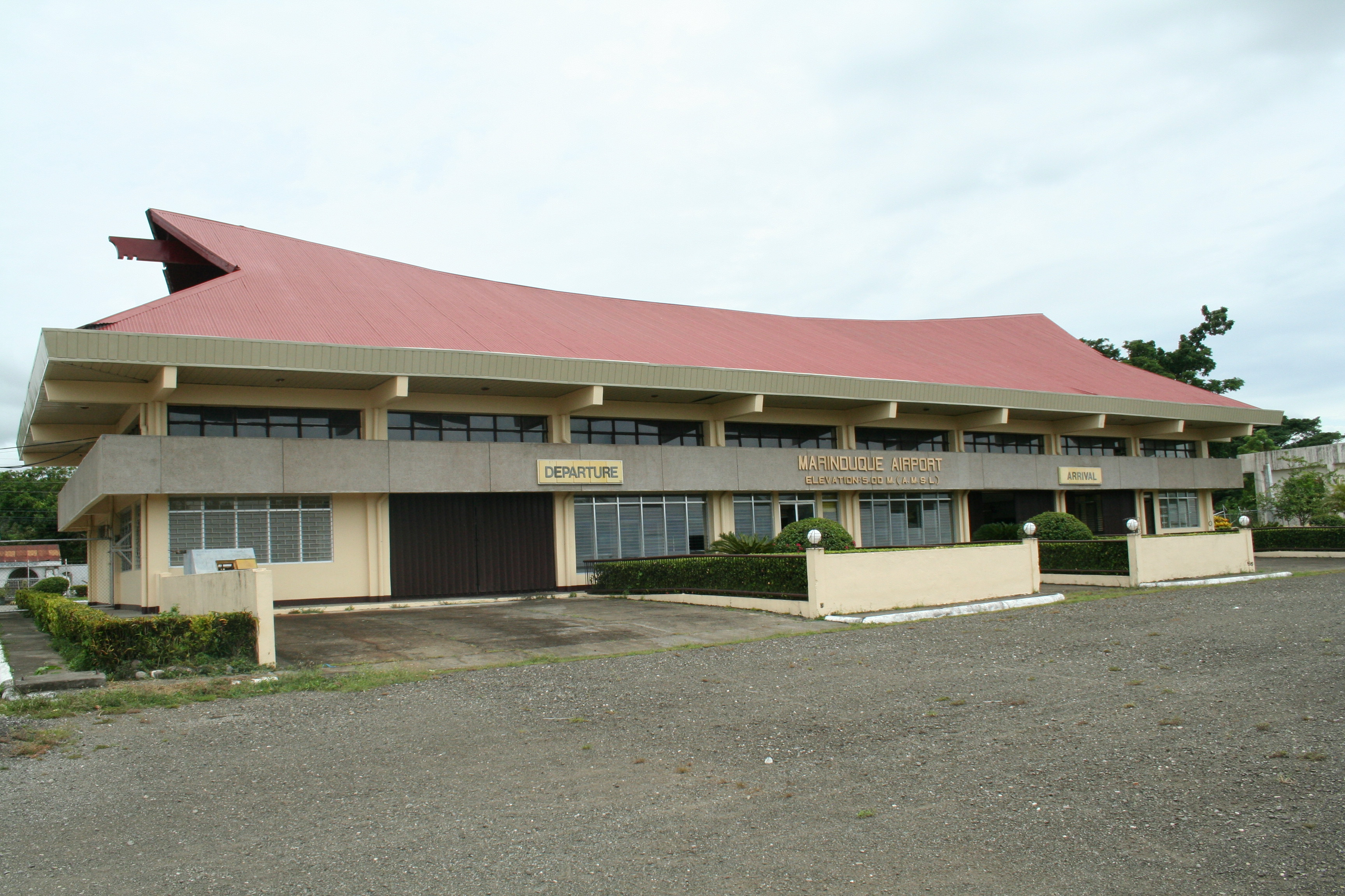 Exterior of Marinduque Airport in Barangay Masiga, Gasan, Marinduque, Philippines. Tagalog: Labas ng Paliparan ng Marinduque sa Barangay Masiga, Gasan, Marinduque, Pilipinas.